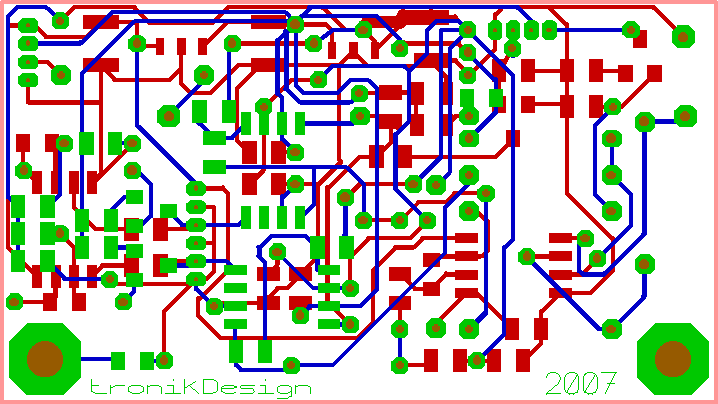 double layer printed circuit board after traces have been routed